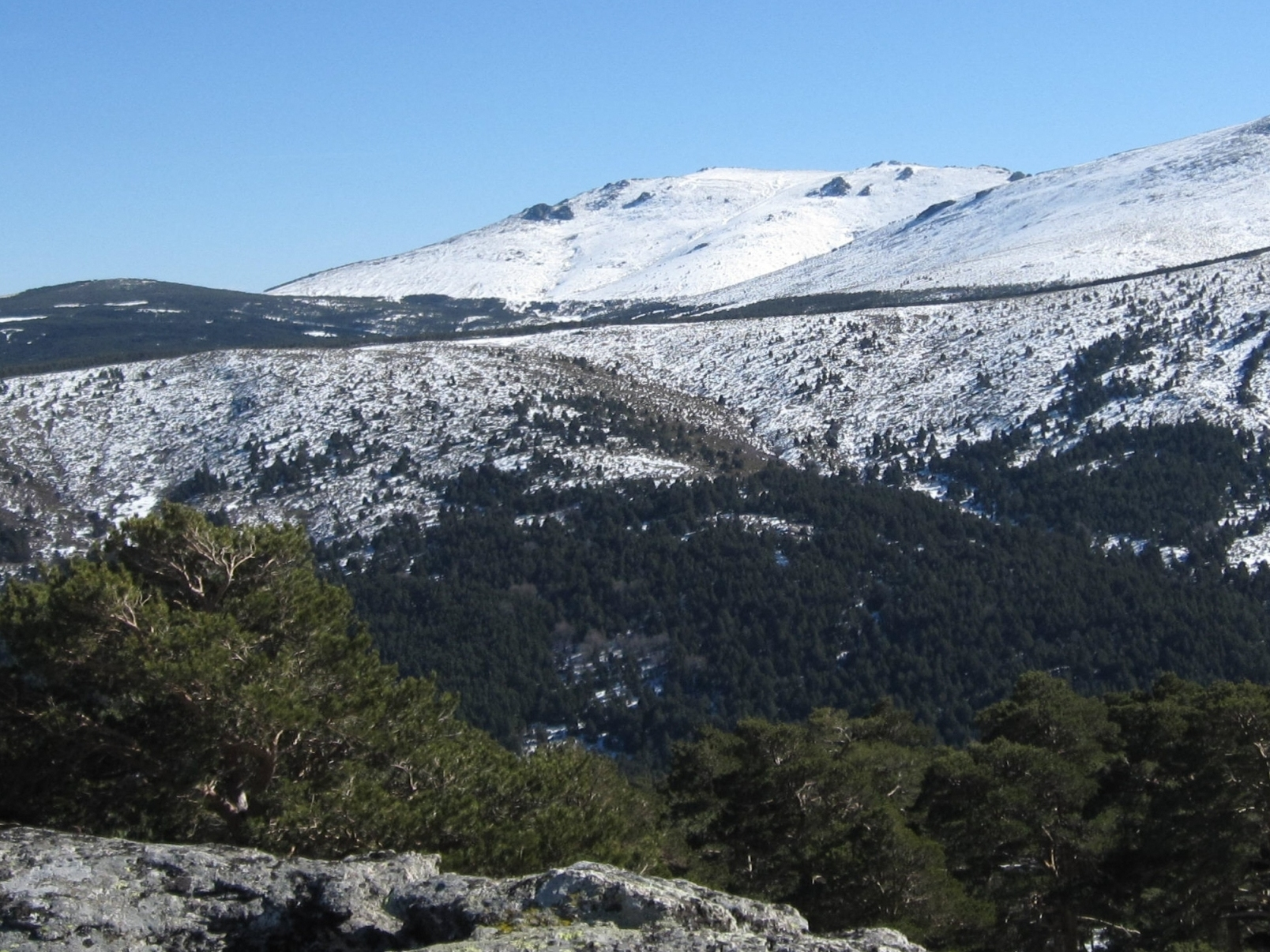 North face of La Najarra (Guadarrama mountain range, Central Spain).